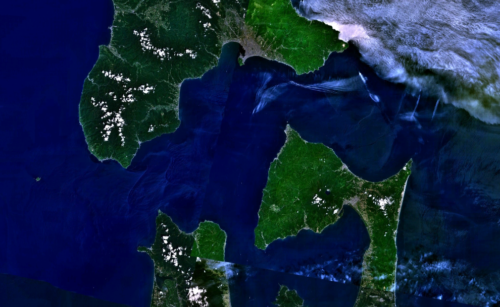 Landsat 7 imagery of Tsugaru Strait